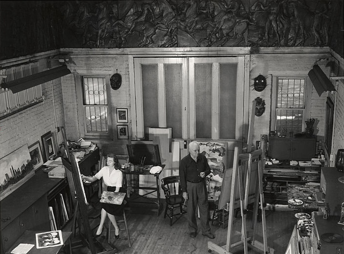 Dehn in his studio with his wife Virginia, stamped on reverse compliments of John D. Schiff, please credit.